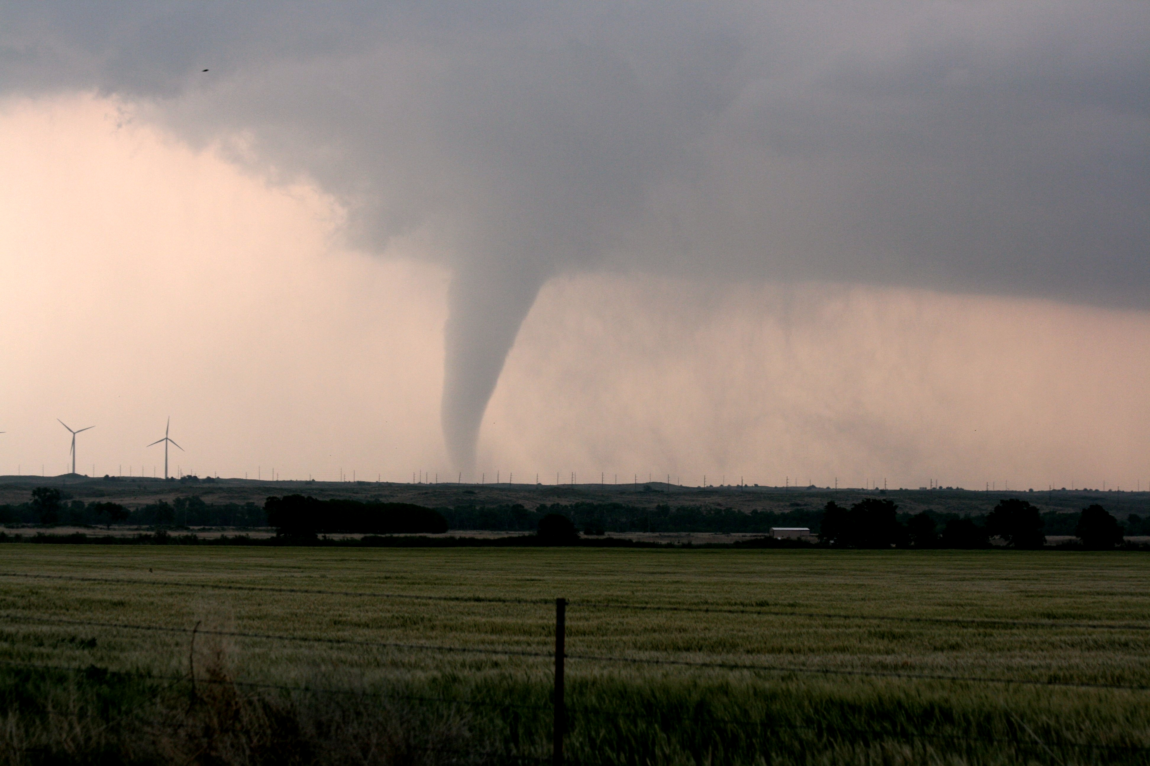 Tornado over the plains. This tornado was one of many spawned during a massive outbreak stretching from eastern Colorado to Oklahoma on May 23-May 24. Kansas.